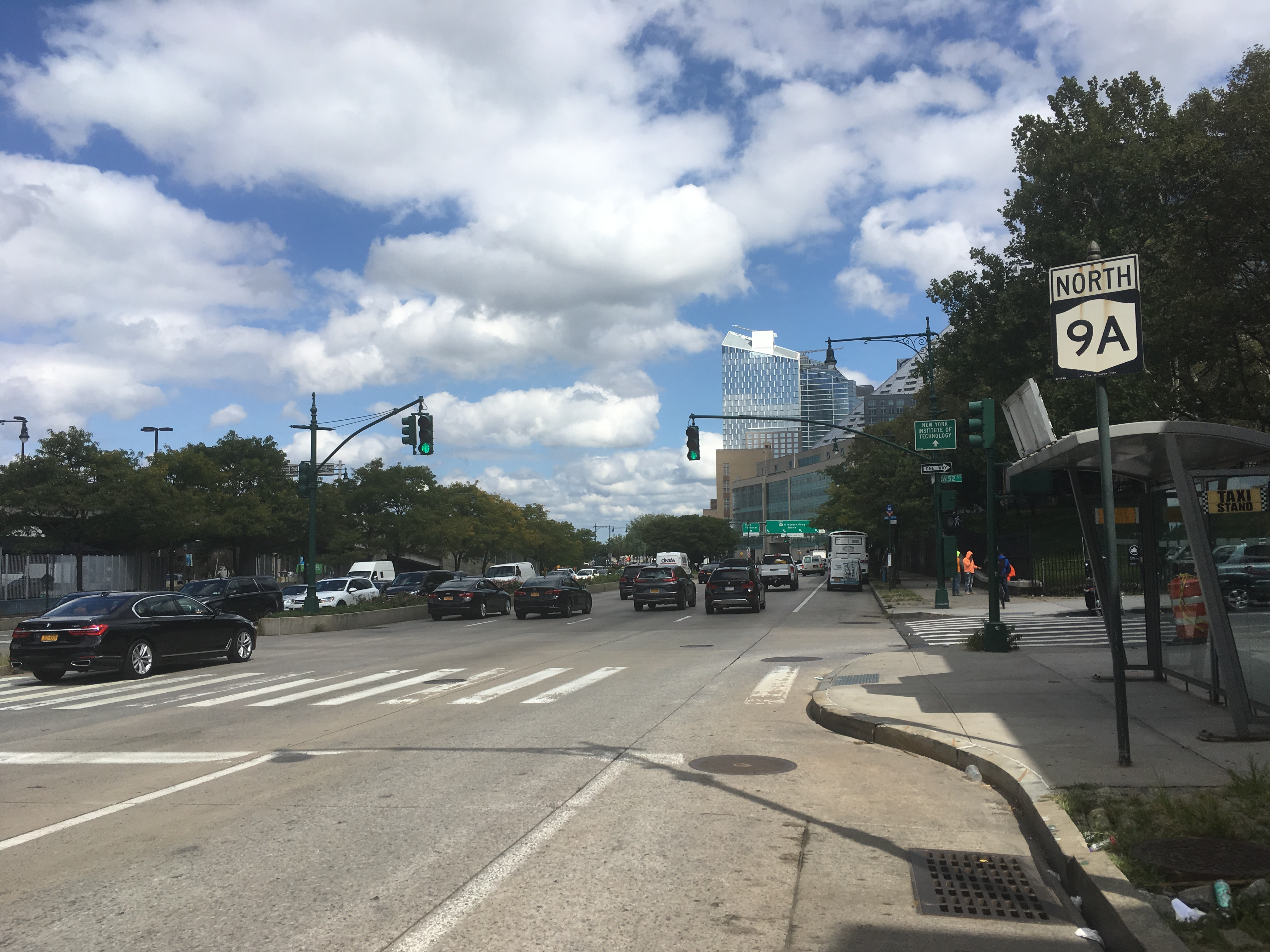 Northbound New York State Route 9A (12th Avenue/West Side Highway) at the intersection with 52nd Street in Manhattan, New York City